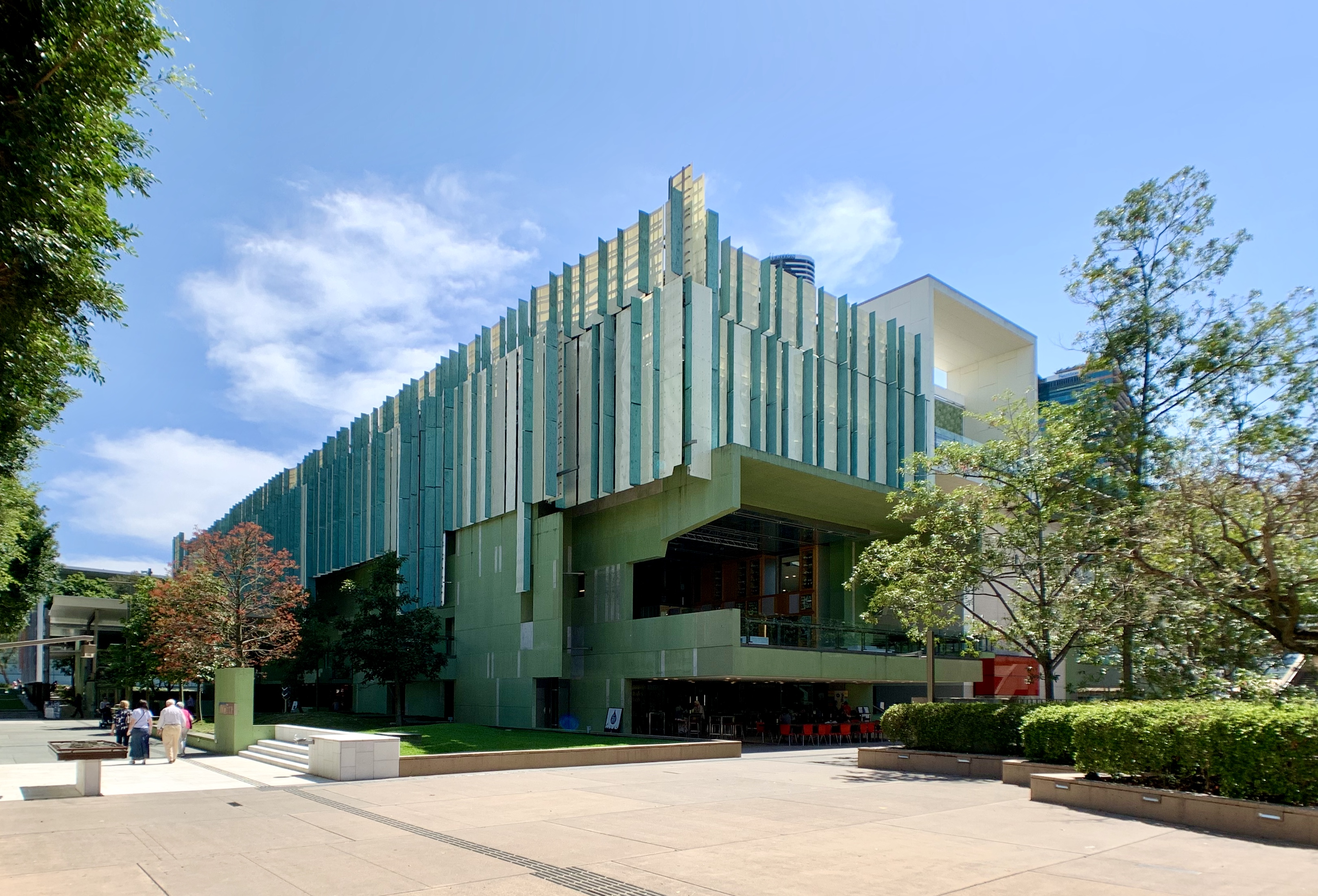 State Library of Queensland building, Brisbane, Queensland